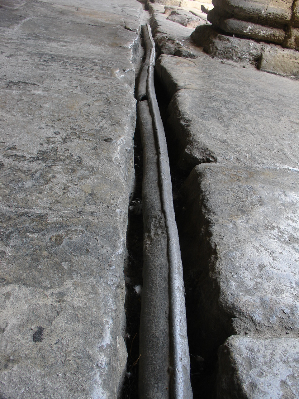 Lead pipe in Roman bath in Bath, Somerset, England.